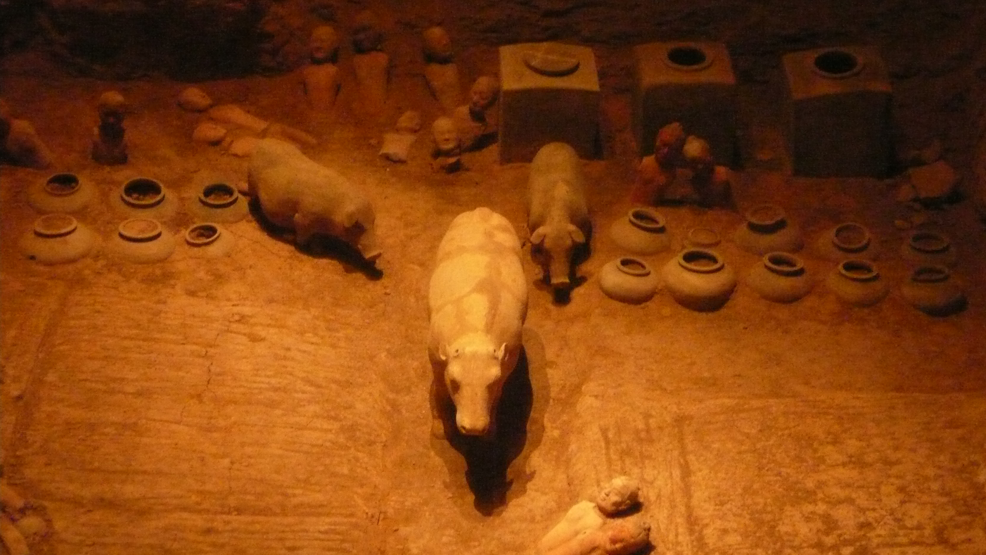 Han Yang Ling - Mausoleum of Jingdi, Han Emperor, Xianyang, near Xi'an